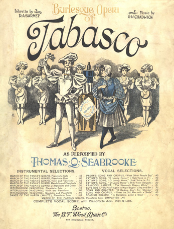 Cover art for the sheet music of the Burlesque Opera of Tabasco, issued in 1894.